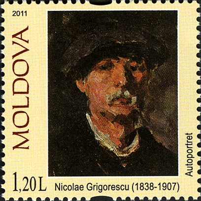 Stamps of Moldova